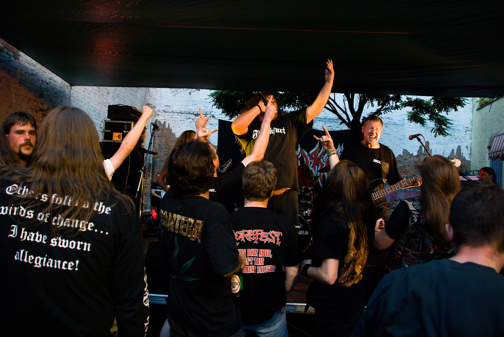 Tankard at Straßenfestival 2007